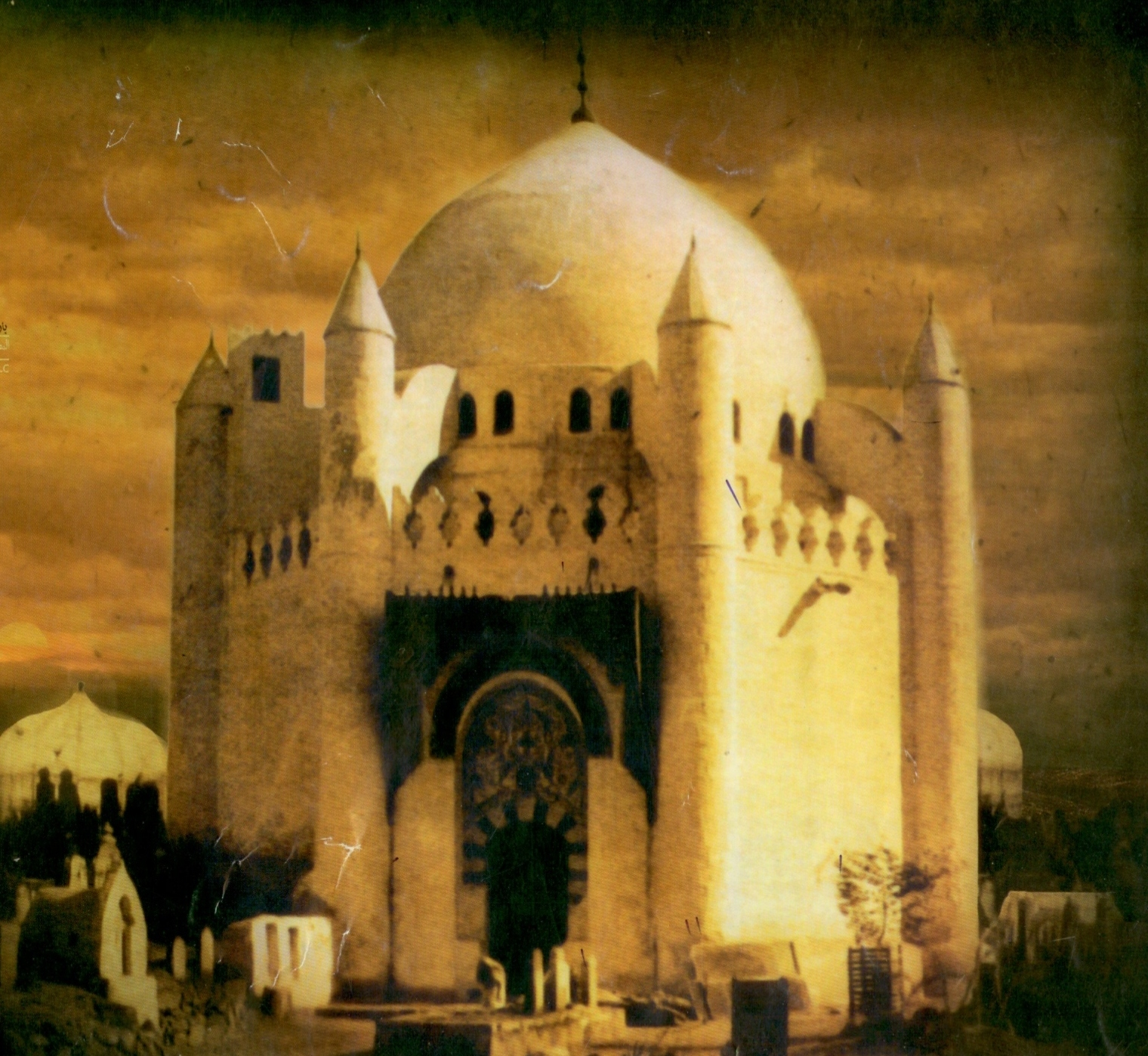 The historical tomb of Baghi has been destroyed in 1926.